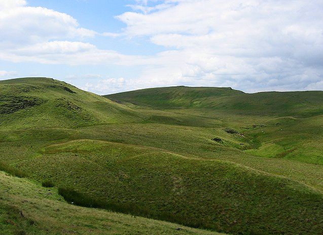 Fynloch Hill. Slightly lower than Duncolm, but not so shapely. Looking at Fynloch Hill from the east. Typical rough grazing scene on the Kilpatrick Plateau.